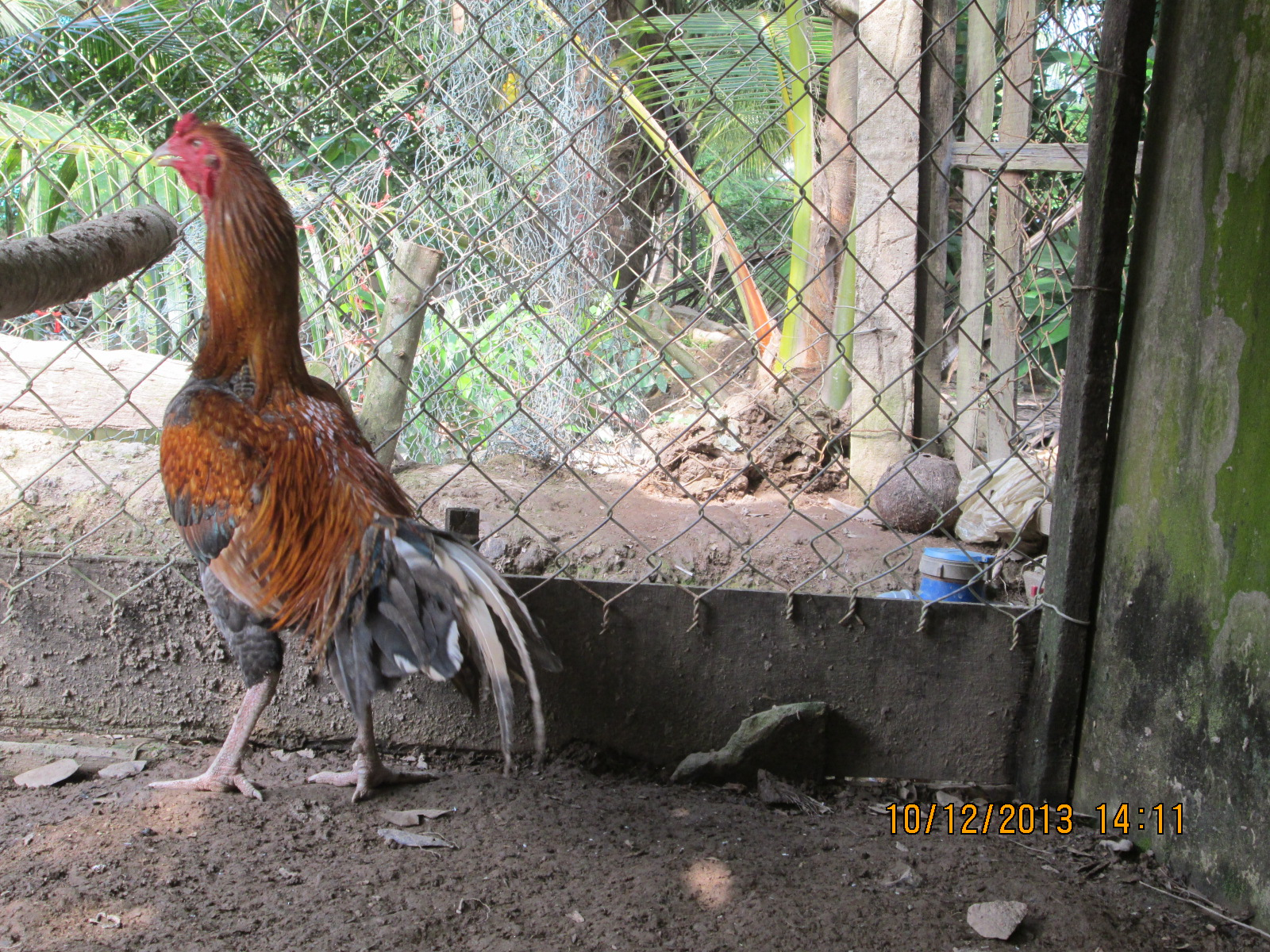 Ben Tre village is famous for producing the best fighting cocks in Vietnam. "Cock-Fighting" is a popular illegal sport in Vietnam.